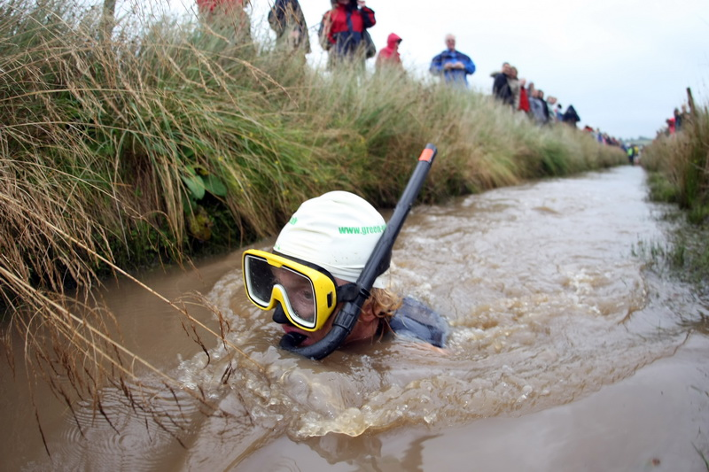 Competitor of the World Bog Snorkelling Championship at the dense Waen Rhydd peat bog, near Llanwrtyd Wells in mid Wales. Image by